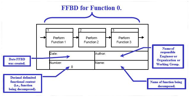 8 FFBD Function 0 Illustration